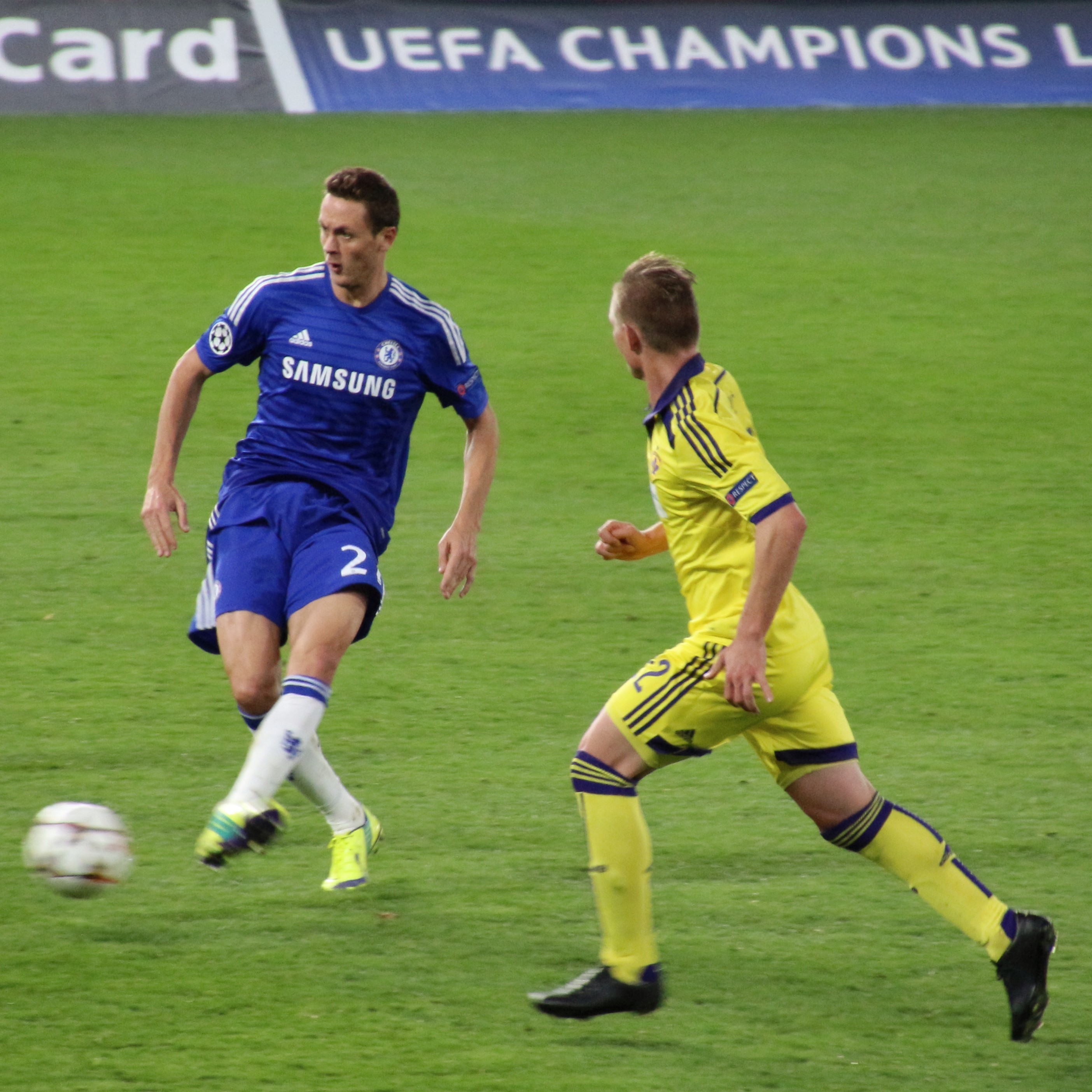 Chelsea 6 Maribor 0 Champions League